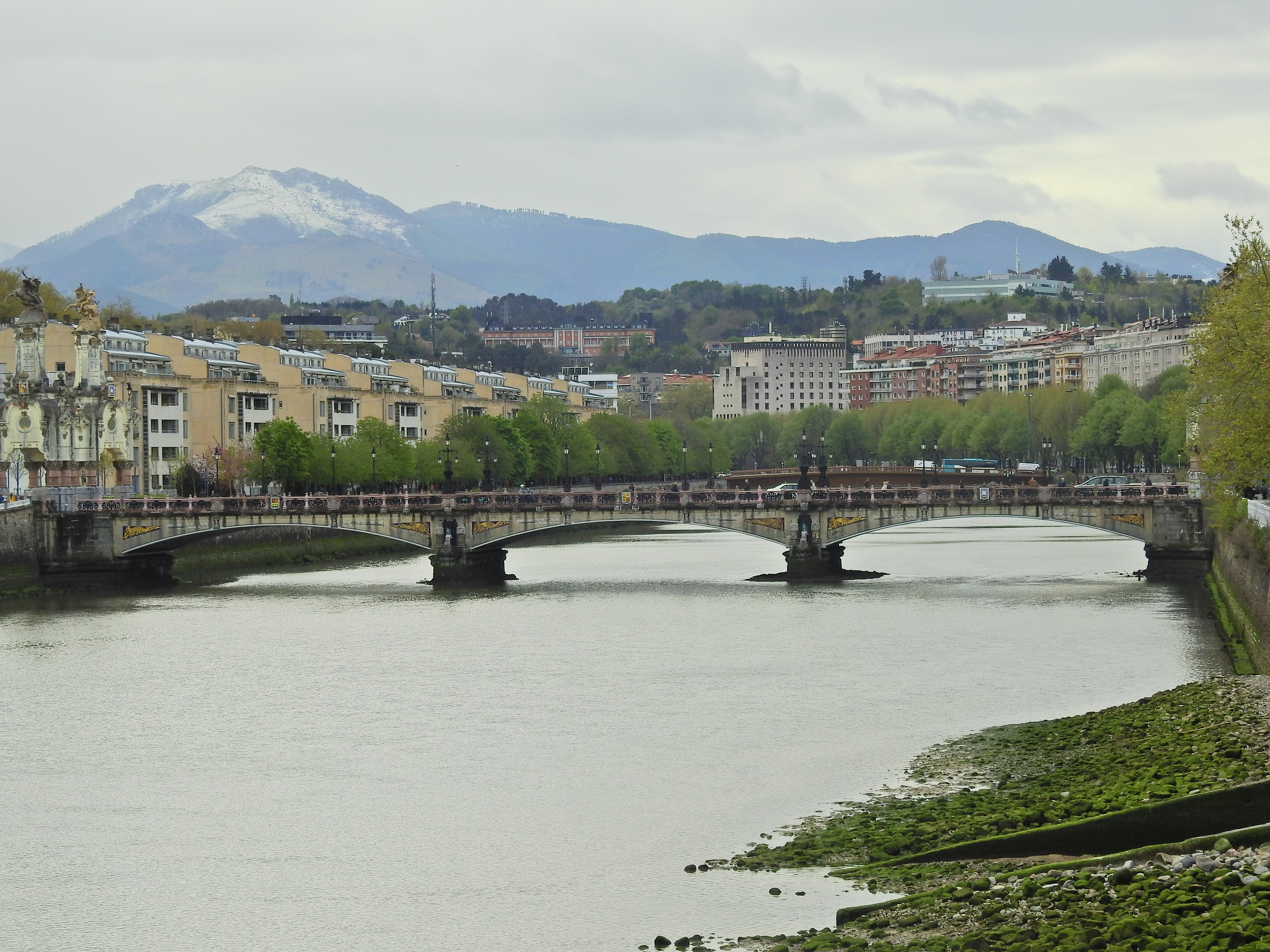 Urumea River in Donostia-San Sebastián, Spain. April 2019.